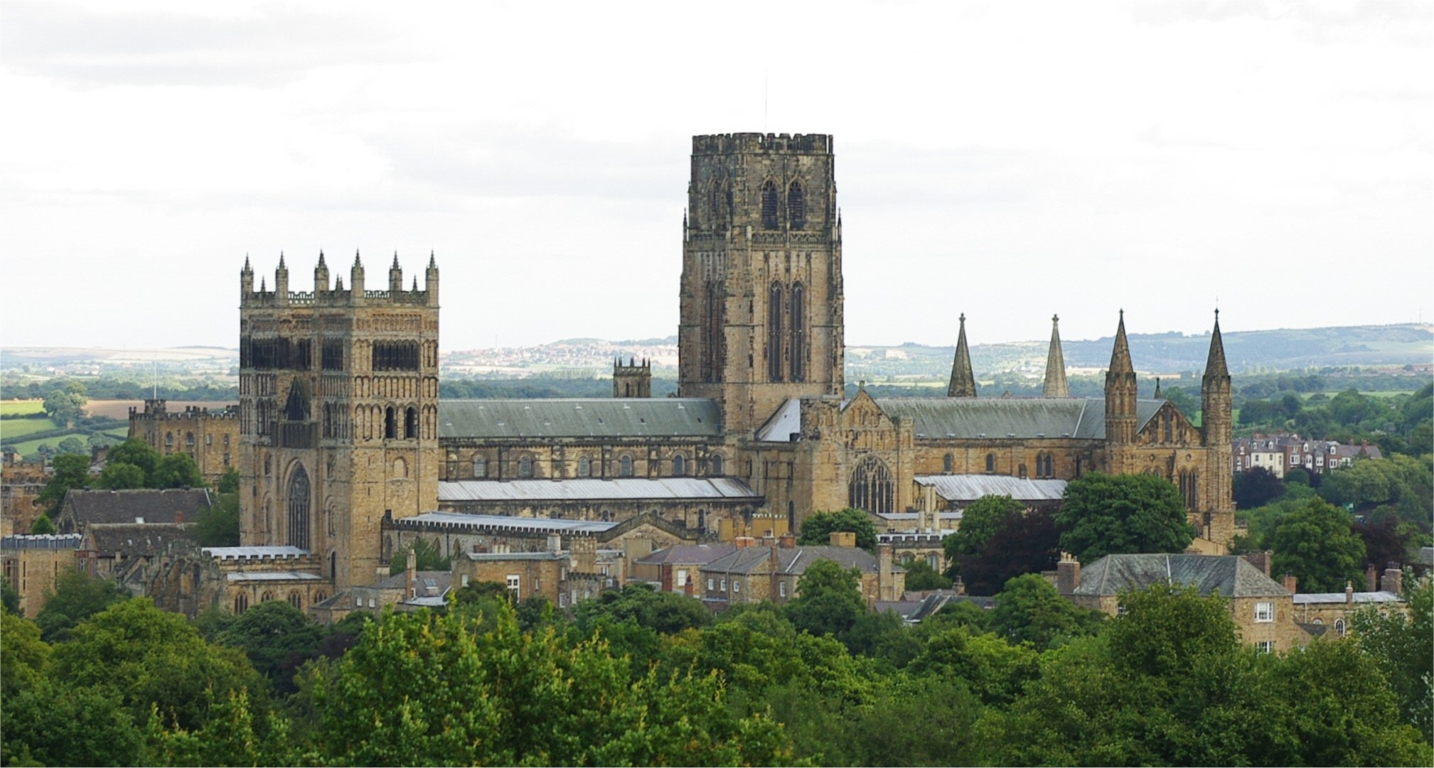 Durham Cathedral from the south